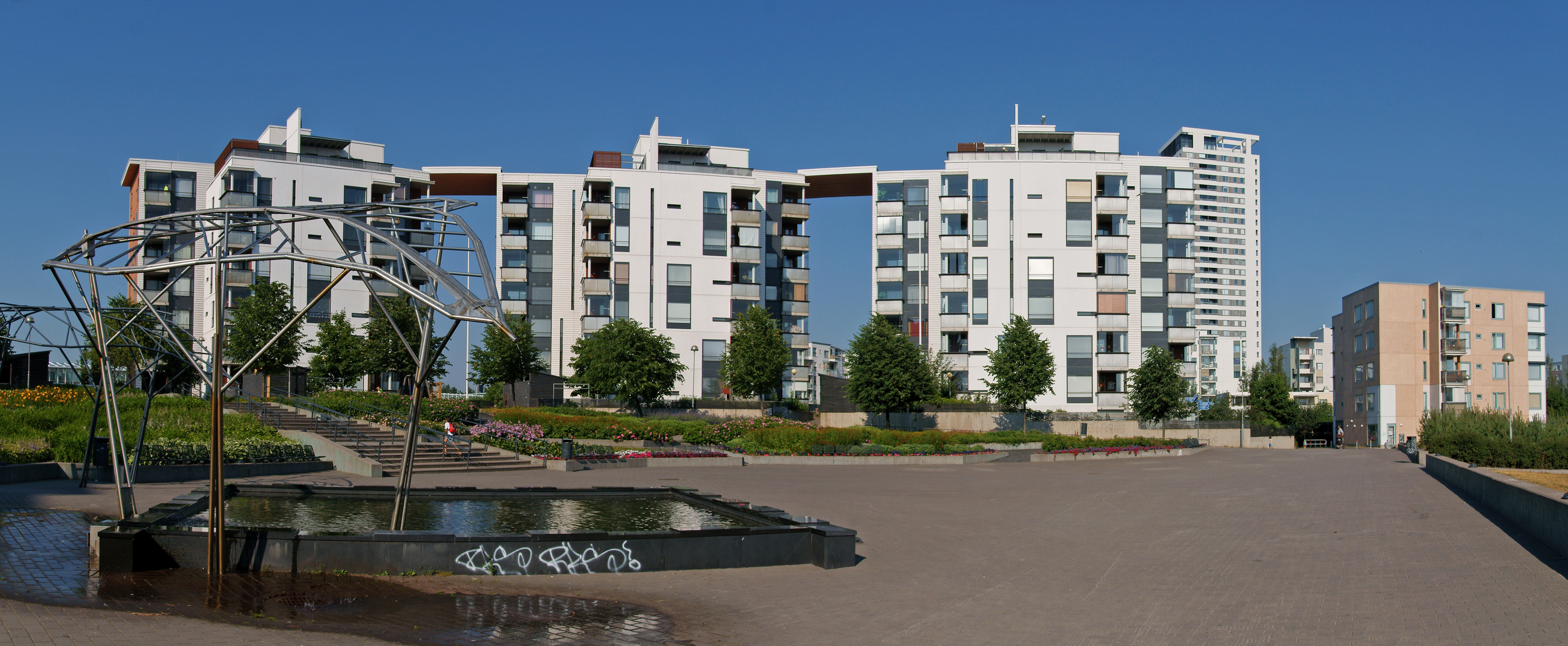 Panorama from Mustakivenpuisto in Vuosaari, Helsinki, Finland.